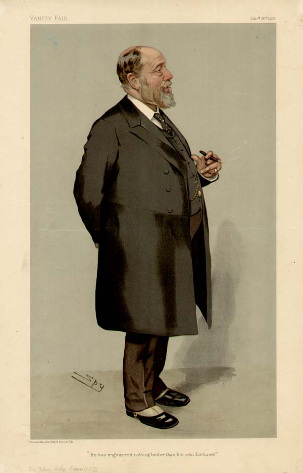 Caricature of Sir J Wolfe-Barry. Caption read "He has engineered nothing better than his own fortunes".